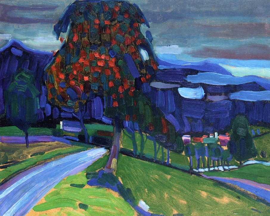 Autumn in Murnau, Private collection